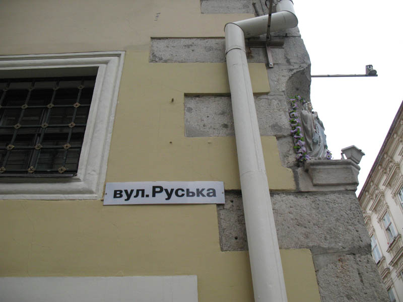 Table on Rus'ka street in L'viv, Ukraine